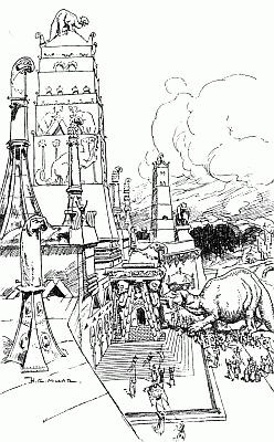 Illustration of the Great Sloth from The Magic City (1910)